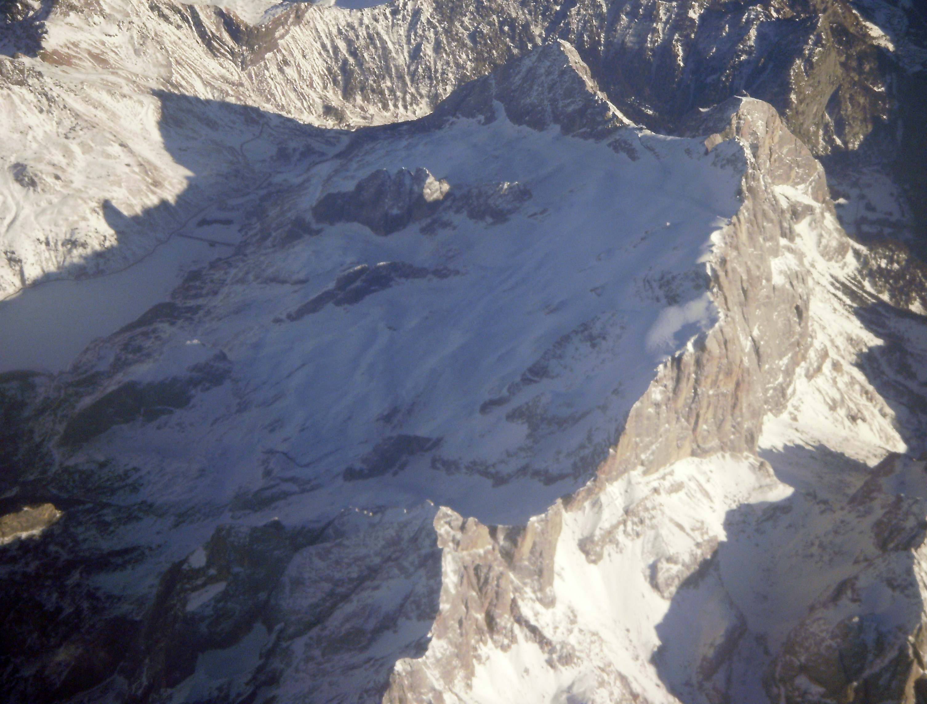 Marmolada